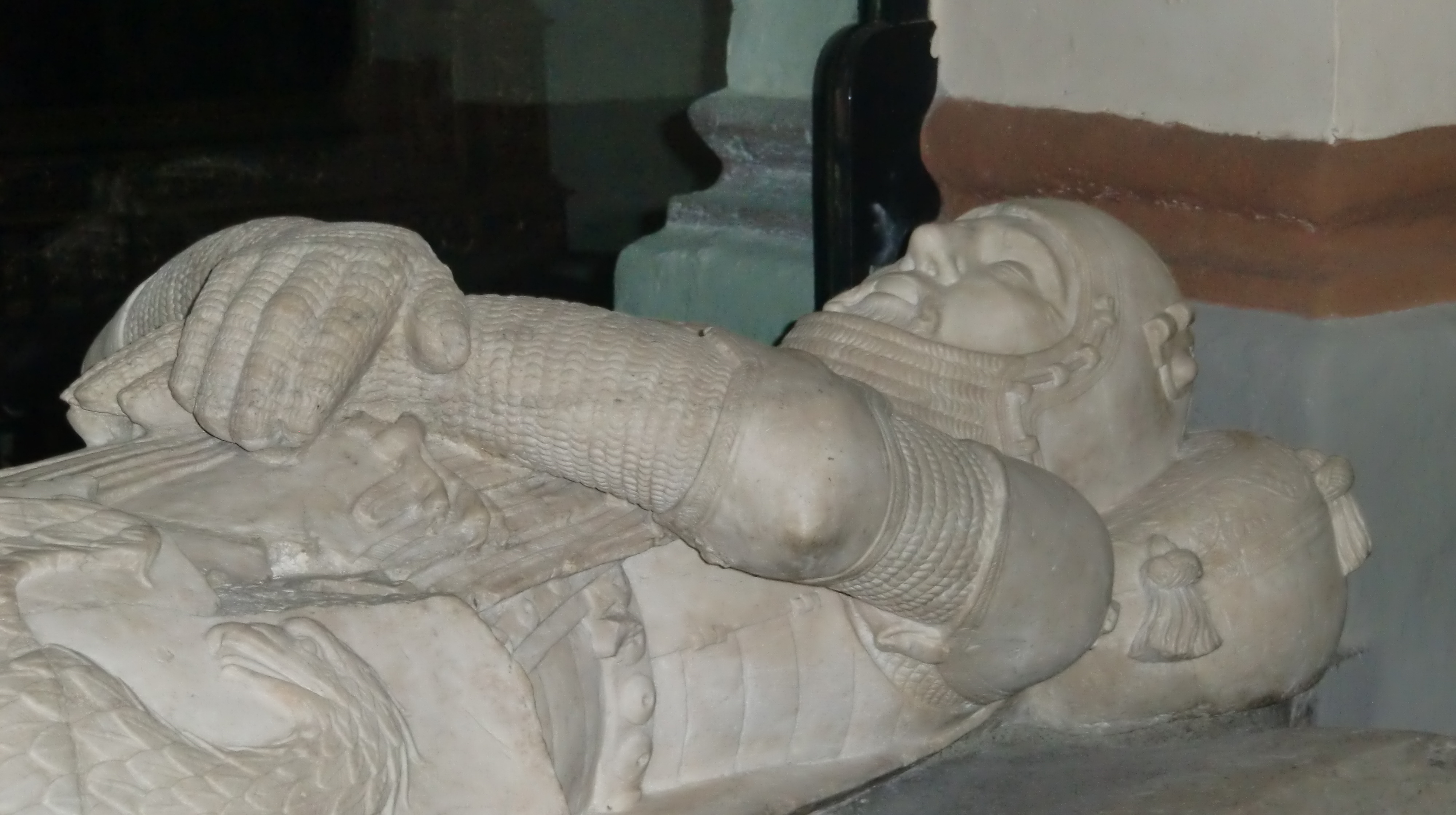 Stefano Mossettaz, Sepulchral monument (detail), Cathedral, Aosta, Italy